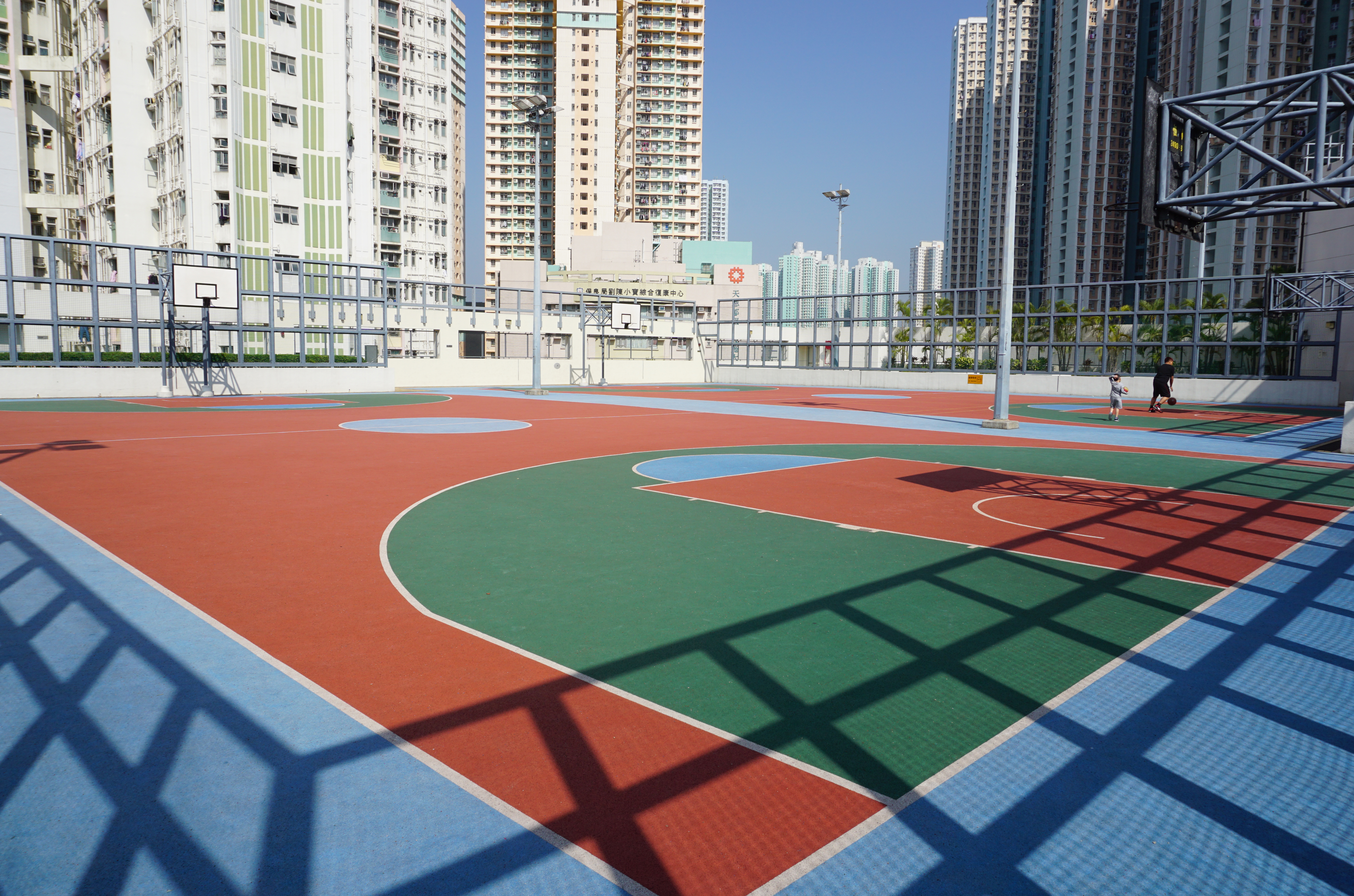 Tin Yan Estate in Tin Shui Wai, Hong Kong.